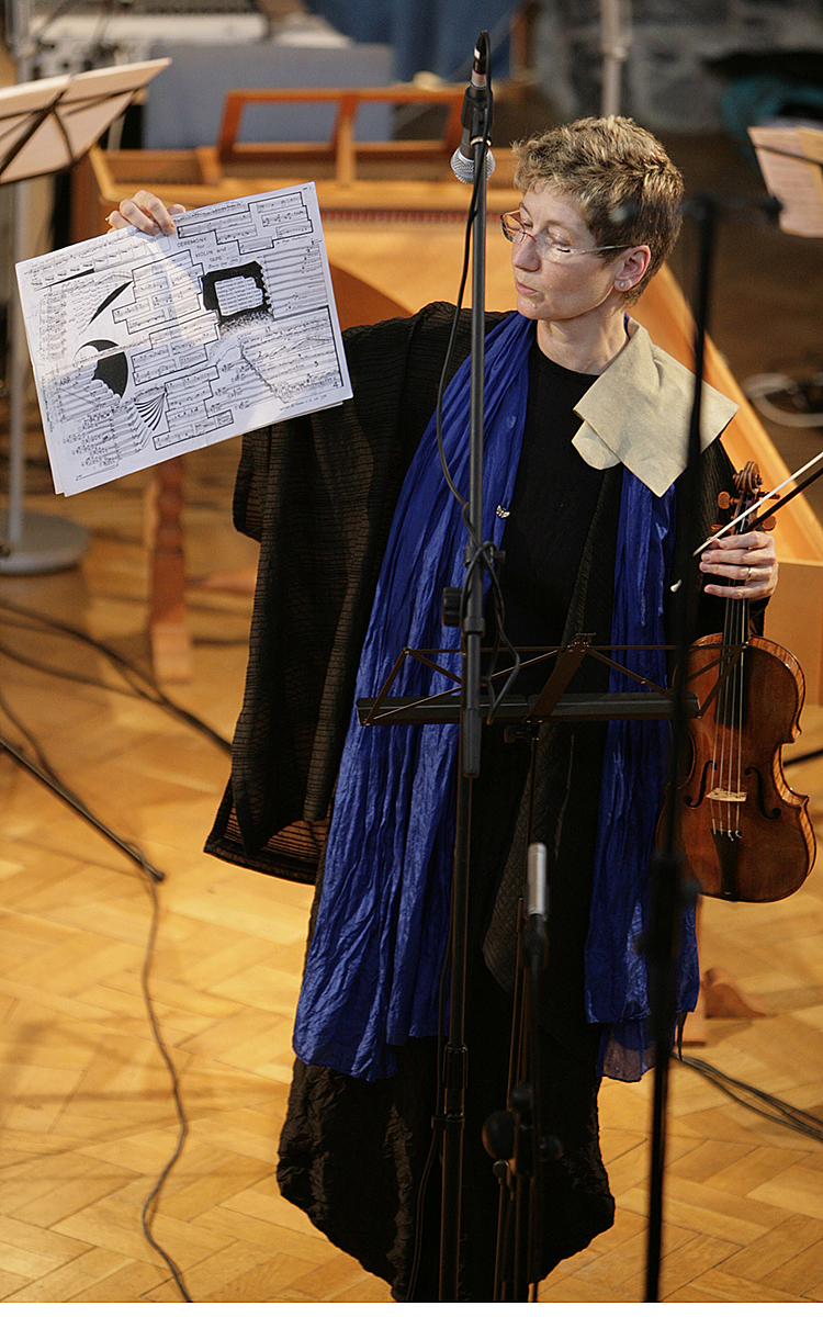 Maya Homburger in concert in Castalia Hall, Ballytobin, Co. Callan, Ireland, April 2007